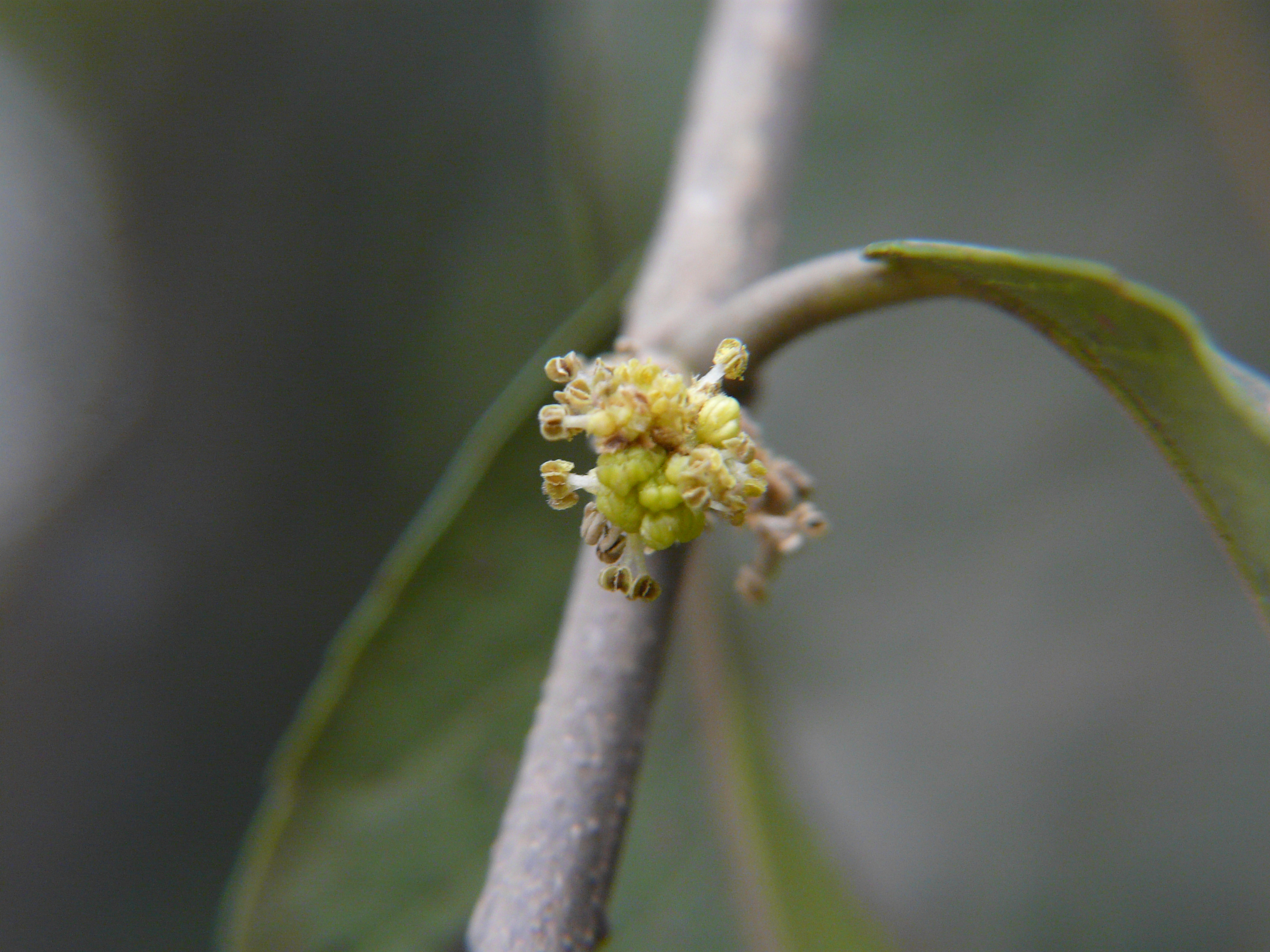 Putranjivaceae (rosid family) » Putranjiva roxburghii ¿ put-RAHN-jee-vuh ? -- from the Sanskrit putran (of son); jiva (life) roks-BURGH-ee-eye -- named for William Roxburgh, Scottish botanist, ... flora of India commonly known as: child's amulet tree, child-life tree, lucky bean tree, officinal drypetes, spurious wild olive • Bengali: putranjiva • Gujarati: પુત્રંજીવા putranjiva • Hindi: पुत्रजीव putrajiv • Kannada: ಮೆಣಸಿನಕಲೆ menasinakale, ಪುತ್ರಮ್ಜೀವ putramjiva • Konkani: saman • Malayalam: പുത്തിലഞ്ഞി puththilanji • Marathi: जीवपुत्रक jivputrak, पुत्रजीवी putrajivi • Oriya: poilundia, sutajivah • Sanskrit: अपत्यम्जीवः apatyamjivah, पुत्रंजीवः putranjivah, श्लीपदमपहः shripadamapah • Tamil: கறிப்பாலை kari-p-palai, புத்திரசீவி puttira-civi • Telugu: కుదురు౛ువ్వి kuduruuvvi, పుత్రజీవిక putra-jivika Native to: India, Myanmar; cultivated elsewhere References: Flowers of India • NPGS / GRIN • Dave's Garden • DDSA